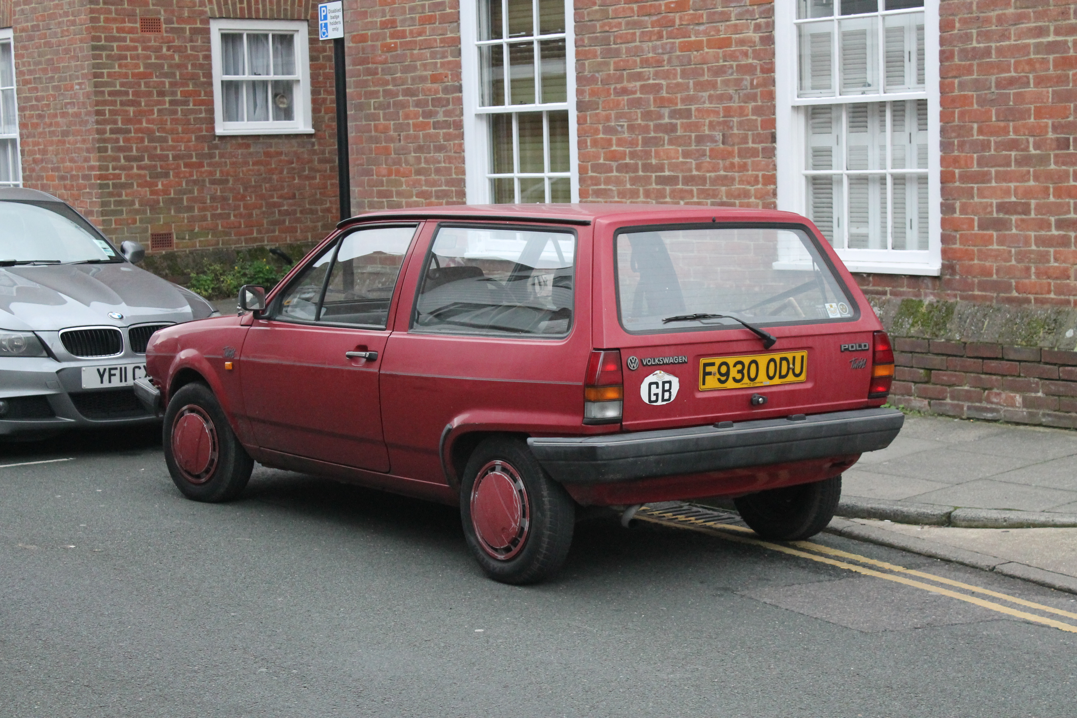 Thought this was just an ordinary Polo breadvan at first, but then I saw the decals and the painted wheeltrims, and recognised this as a special edition. Only 25 are on the roads! I spotted this one again today with an elderly gentleman behind the wheel, as one would expect. He's only owned it since 2009 though. Registration number: F930 ODU ✔ Taxed Expires: 01 June 2015 ✔ MOT Expires: 28 May 2015